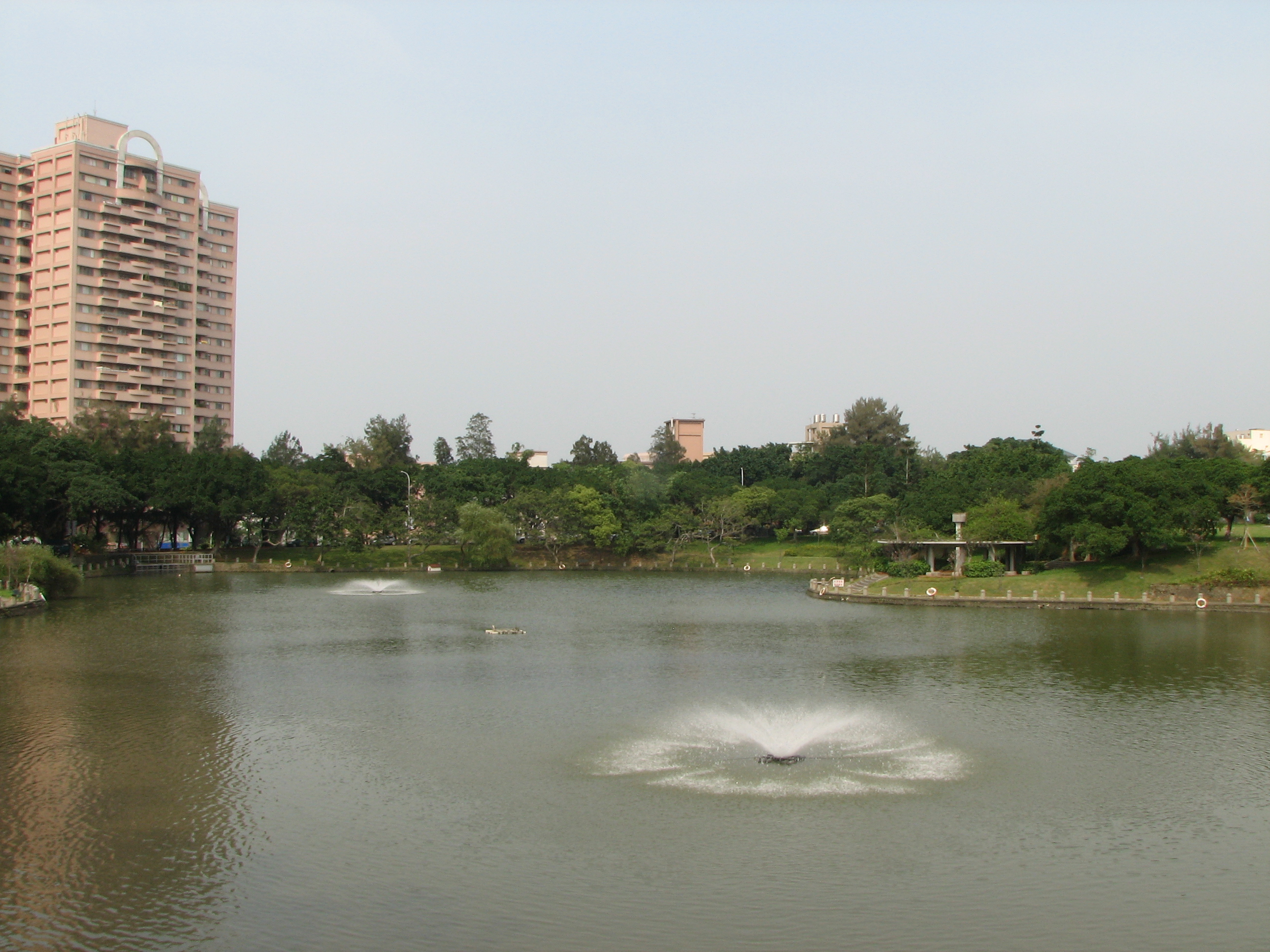 Bamboo Lake in National Chiao Tung University Bân-lâm-gú: 國立交通大學內底的竹湖。 Kok-li̍p Kau-thong Tāi-ha̍k lāi-té ê Tik-ôo